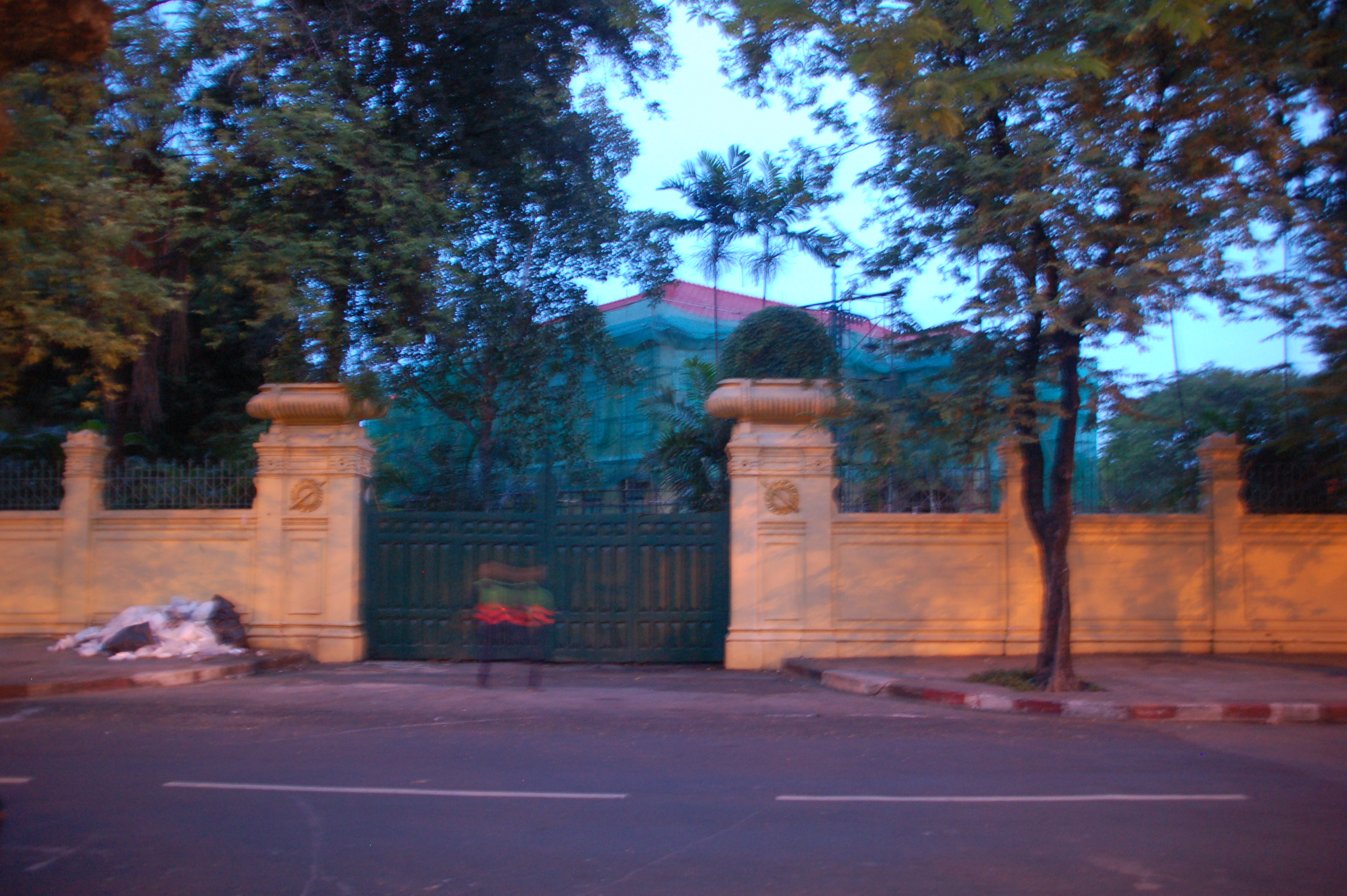 Suan Chitlada mansion, former residence of HM King Rama VI, later transfered to HRH Prince Chakrabongse Bhuvanath. 13°46′05″N 100°30′38″E / 13.7679965°N 100.5106705°E